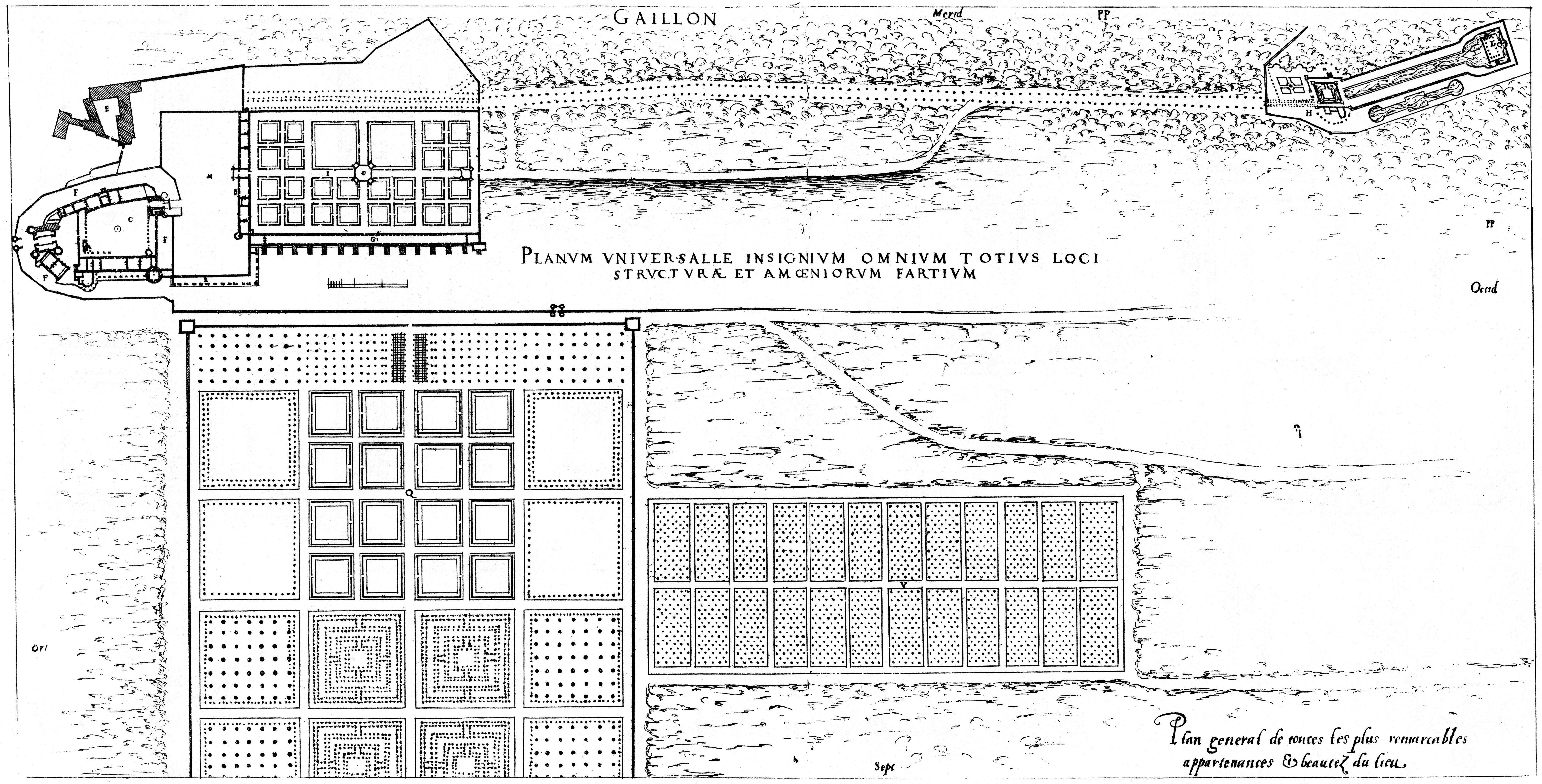 Engraving from Le premier volume des plus excellents Bastiments de France by Jacques I Androuet du Cerceau. General plan of the Château de Gaillon